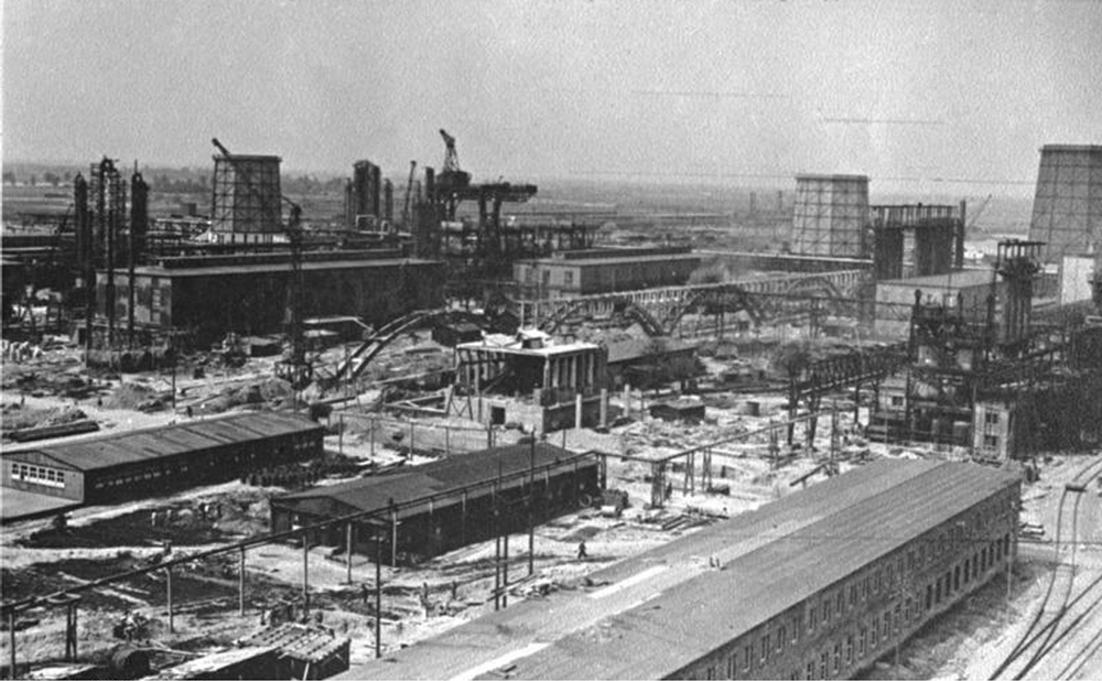 1941, IG Farben's plant, near Auschwitz" ; . Source : German Federal Archive